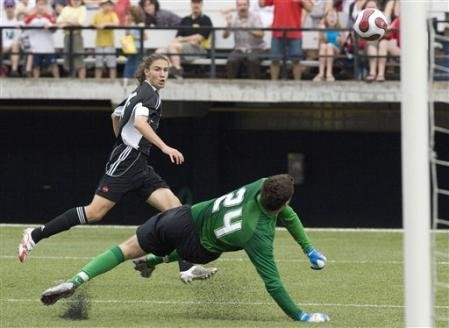 Lacoste-Lebuis against USA